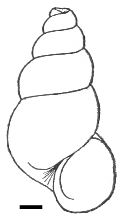 drawing of apertural view of a shell of Blanfordia bensoni. The scale is 1 mm.